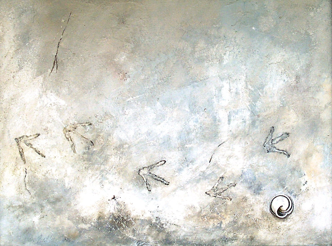 To the marge of Time by Balázs Boda, 2001. 50x70cm, oil, wood panel.